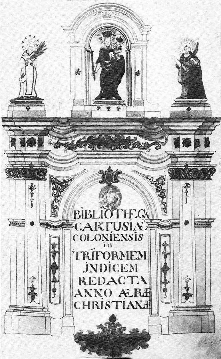 alphabetical library catalogue 1748, multicoloured, hand-painted title page.